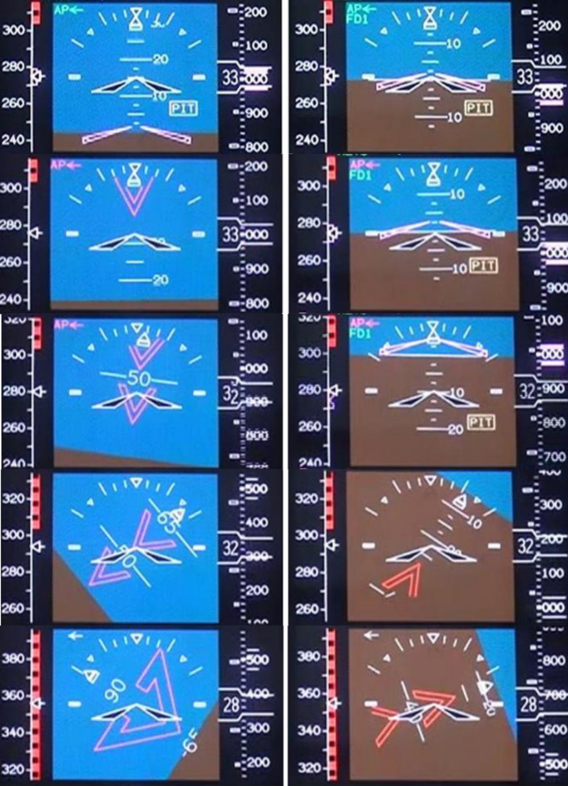 With the exception of the SHK logo, and photos and graphics to which a third party holds copyright, this publication is licensed under a Creative Commons Attribution 2.5 Sweden license. This means that it is allowed to copy, distribute and adapt this publication provided that you attribute the work. The SHK preference is that you attribute this publication using the following wording: “Source: Swedish Accident Investigation Authority”.